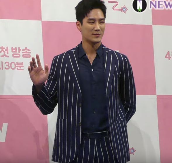 Ahn Bo-hyeon